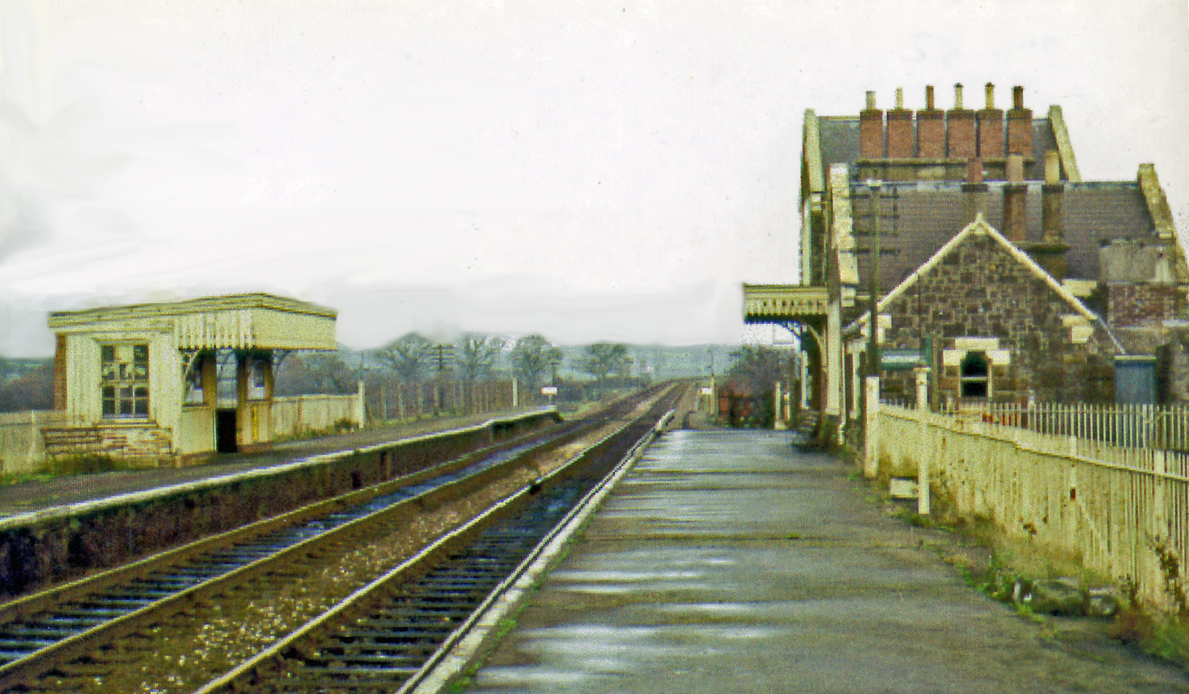 Bow (Devon) station, 1968. View eastward, towards Yeoford and Exeter: ex-LSWR Exeter - Okehampton - Plymouth etc. main line. The station and the line were closed to passenegers from 5/6/72, but the line remained through Okehampton to Meldon Quarry for freight. Okehampton station was restored in 1997 and currently sees a 'heritage' Dartmoor Railway service between Sampford Courtenay and Meldon, run from Exeter by National Rail on Sundays.